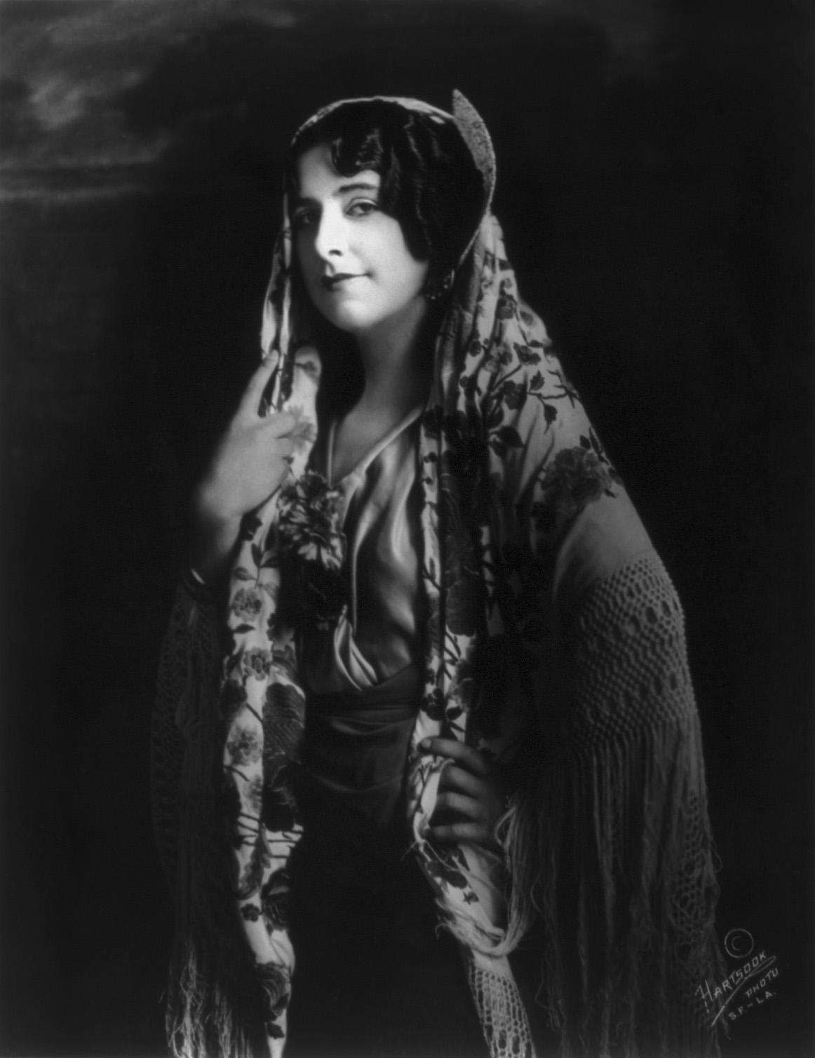 Geraldine Farrar in the film Carmen (1915).